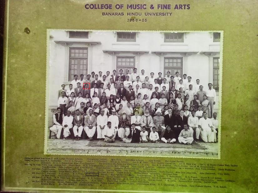 1957 Batch of College of Music and Fine arts,Banaras Hindu university